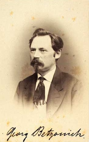 Georg Emil Betzonich (1829-1901), Danish officer and writer